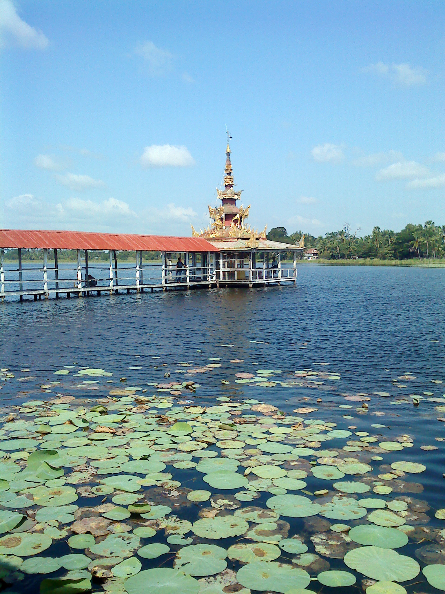 Wetthe Lake in Salin, Magway Region, Myanmar